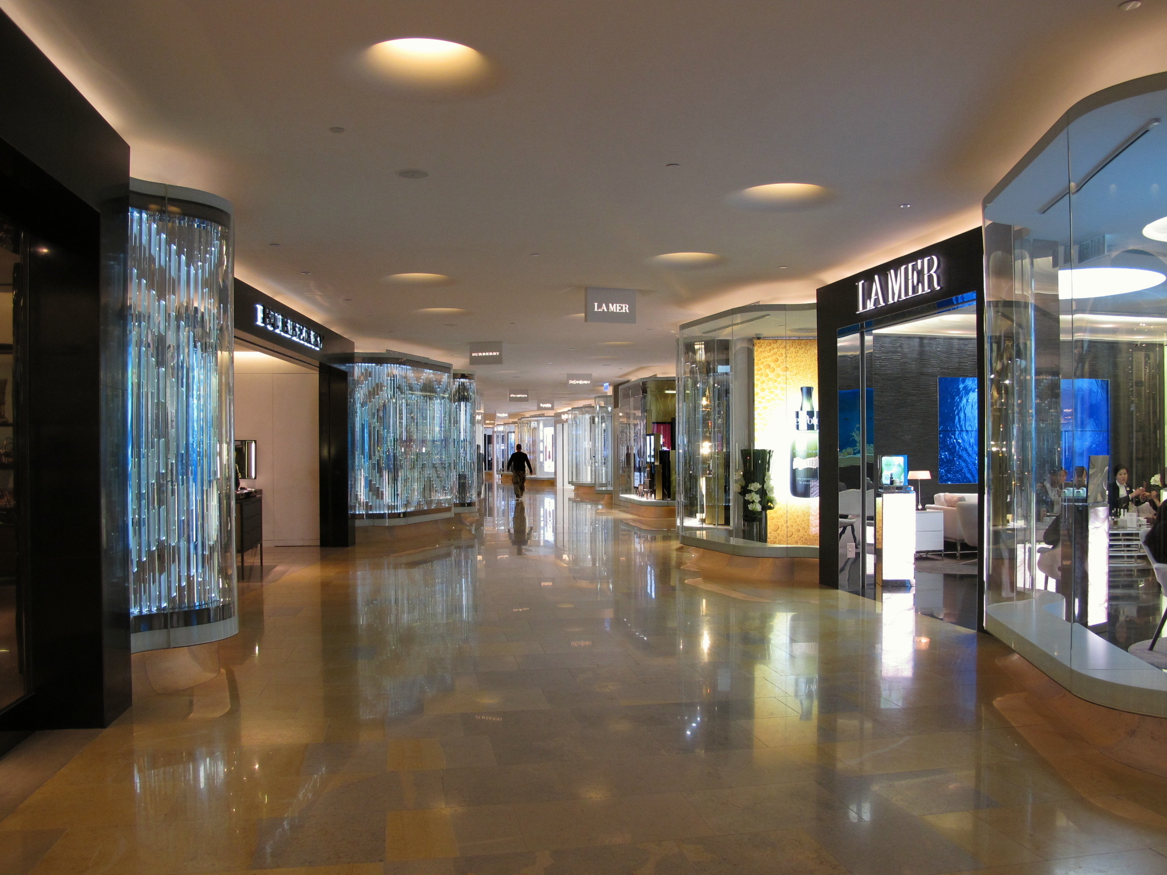 太古廣場 The Beauty Gallery Pacific Place The Beauty Gallery